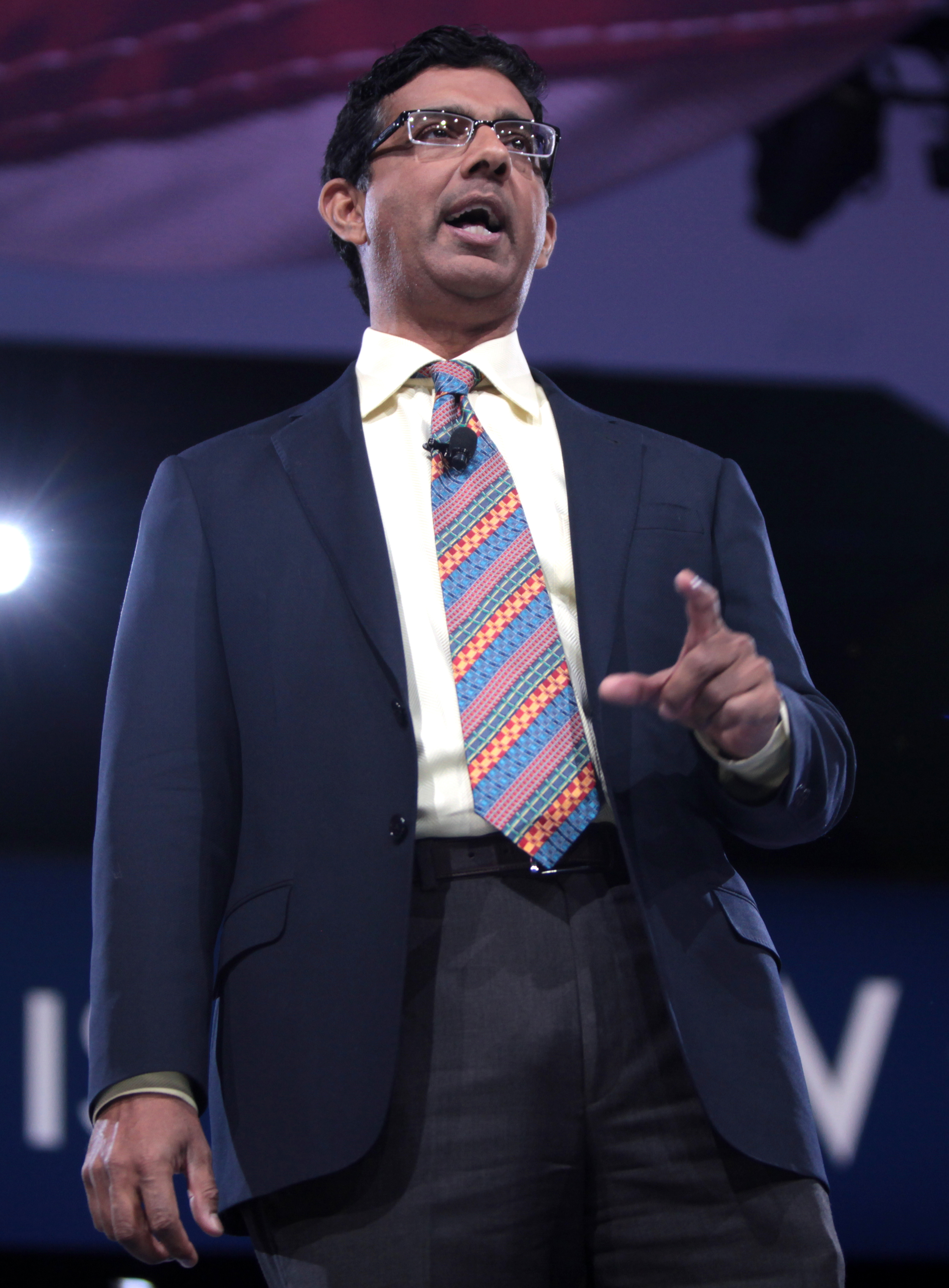 Dinesh D'Souza speaking at CPAC 2016 in Washington, D.C.